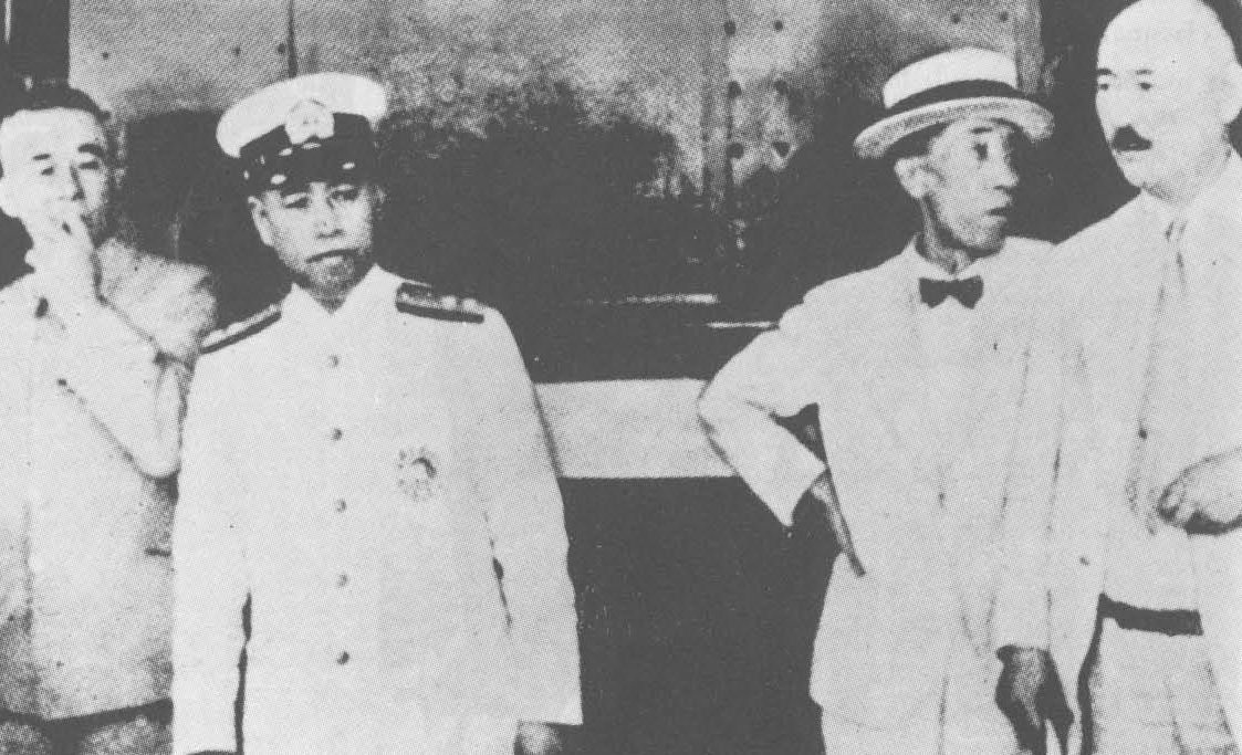 Imperial Japanese Navy Admiral Isoroku Yamamoto at Tokyo Station enroute to take command of the Combined Fleet on August 31, 1939.